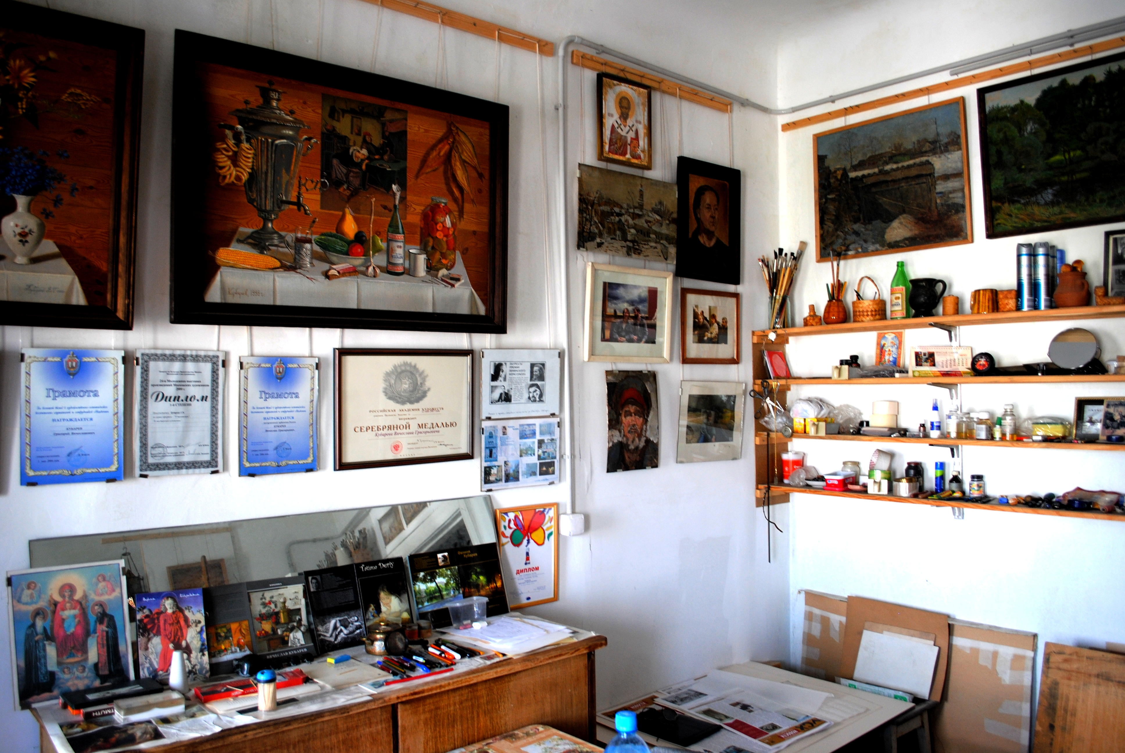 Kubarev Livny